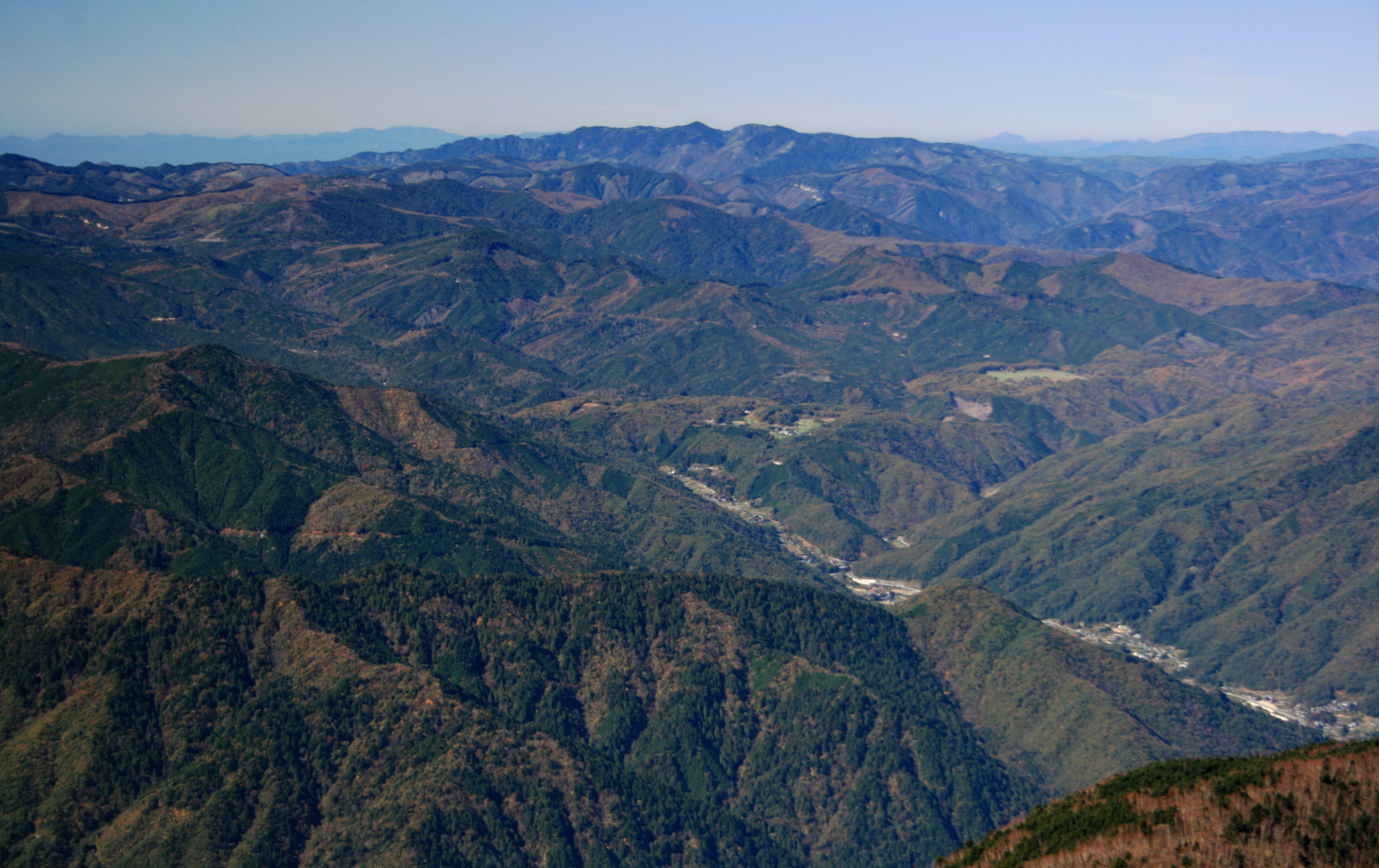 Mount Kohide from Mount Doppyo